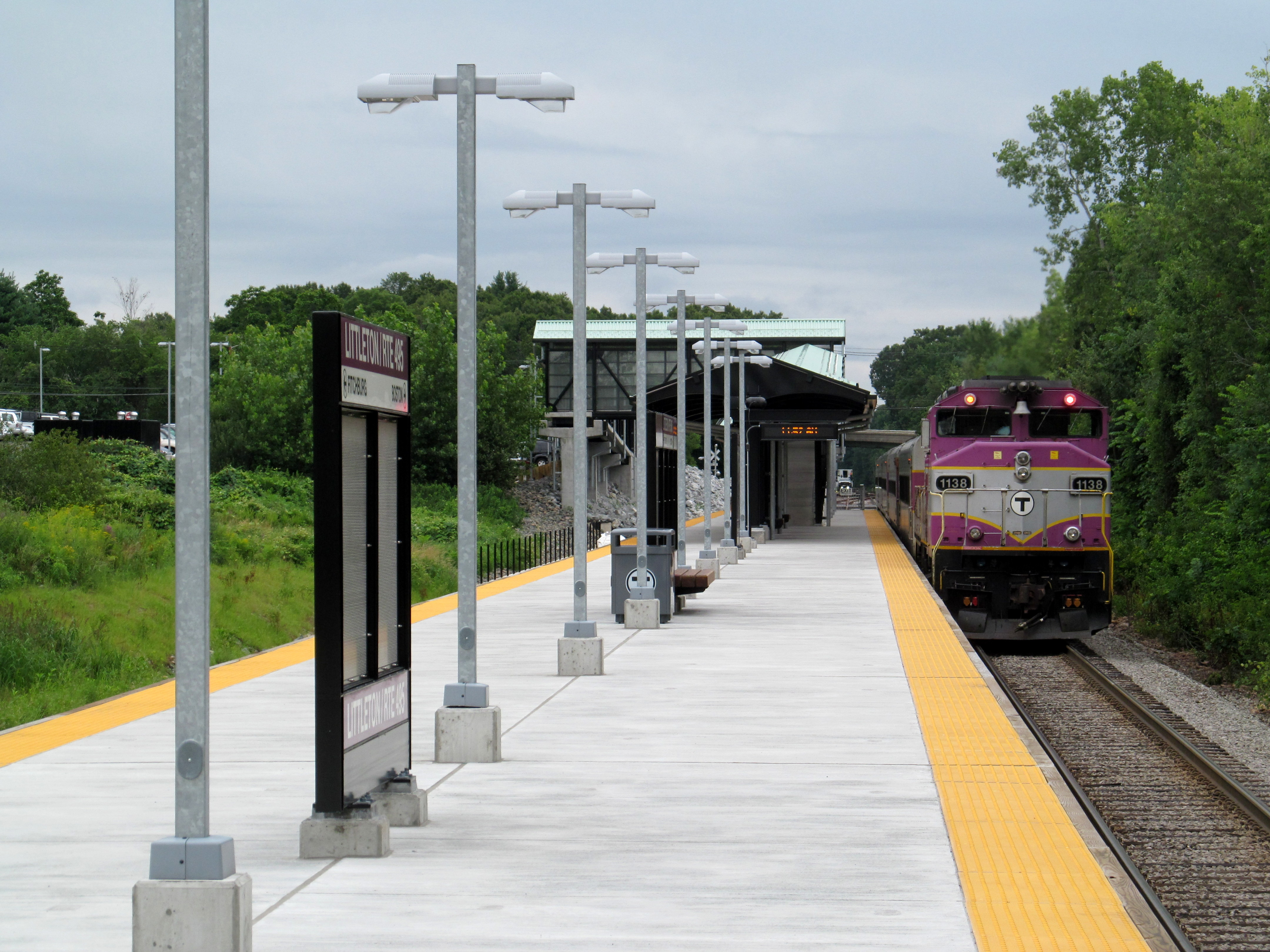 MBTA #1138 pushes an inbound train at the newly rebuilt Littleton station in July 2013.